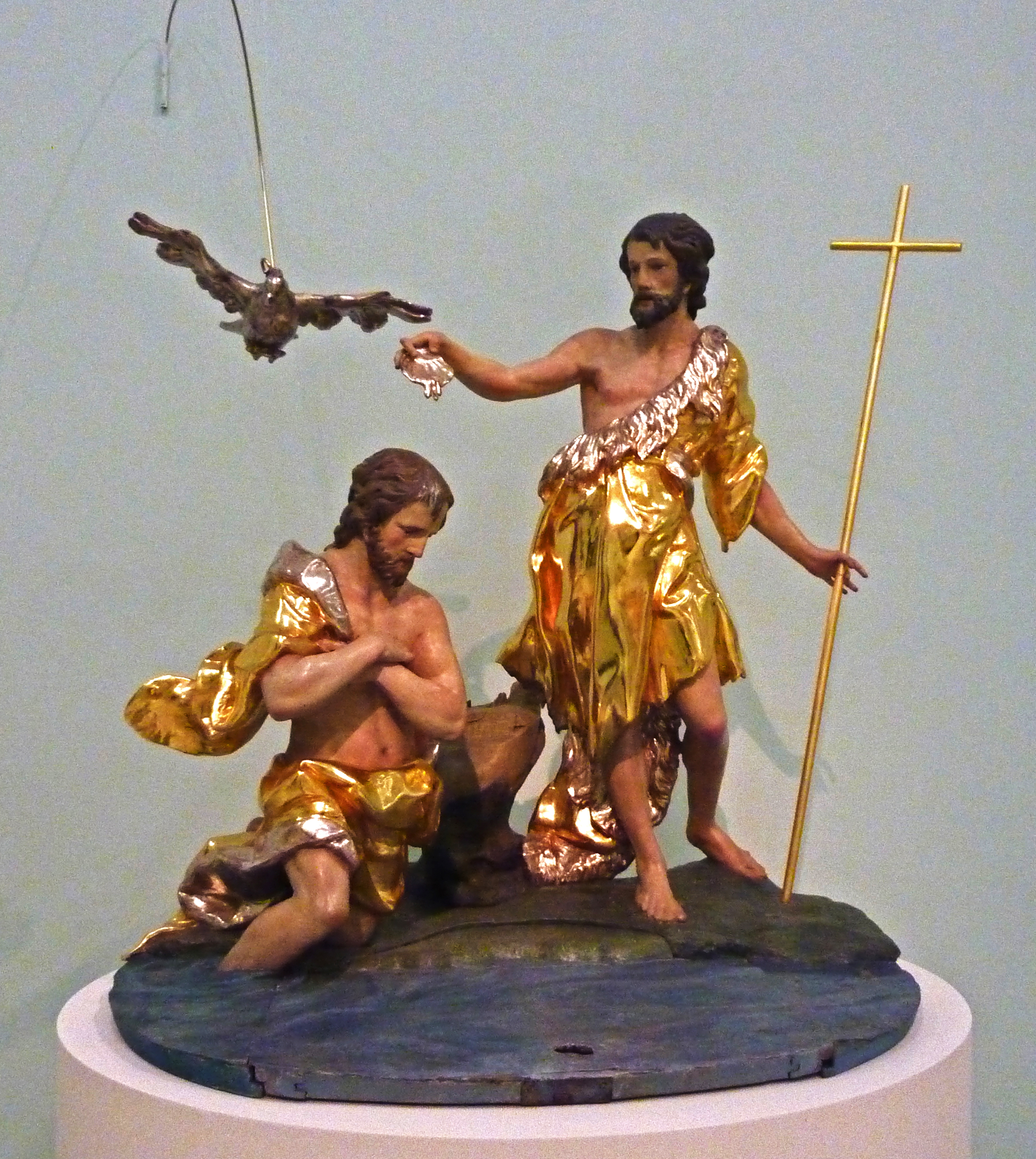 Sculptural group on the lid of a baptismal font